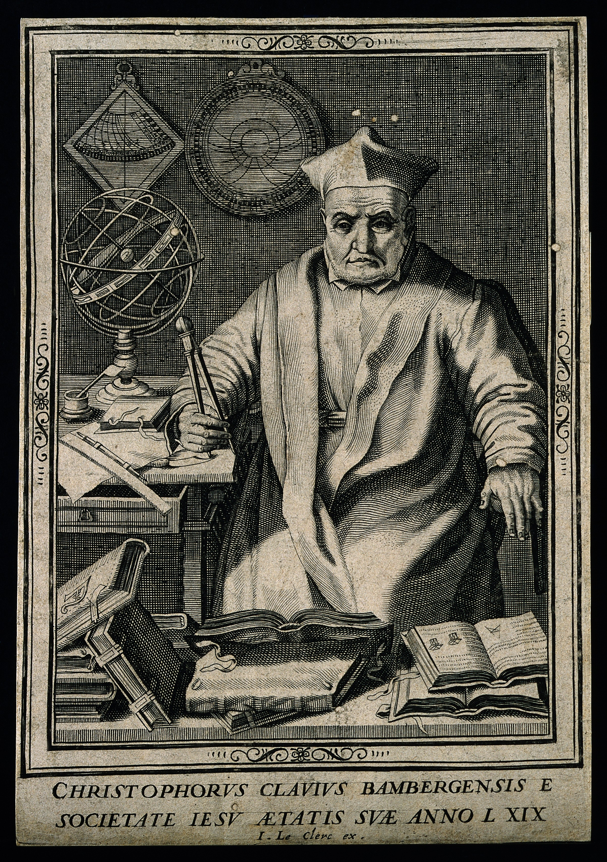 Christopher Clavius. Line engraving by I. le Clerc. Iconographic Collections Keywords: portrait prints; engravings; Christophorus Clavius; clavius, christophorus, 1537-1